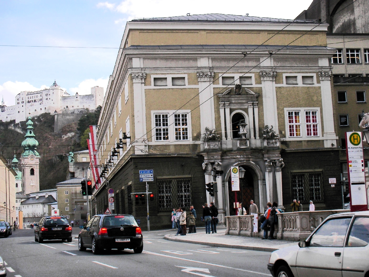 Austria, Salzburg, Großes Festspielhaus